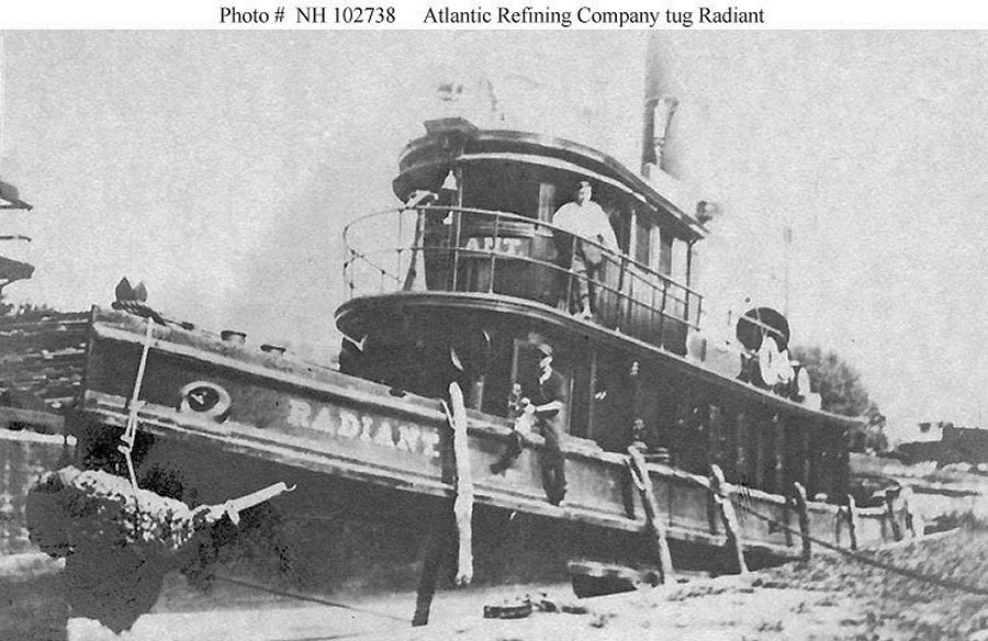 Commercial tug Radiant, considered for World War I United States Navy service as USS Radiant but never commissioned.